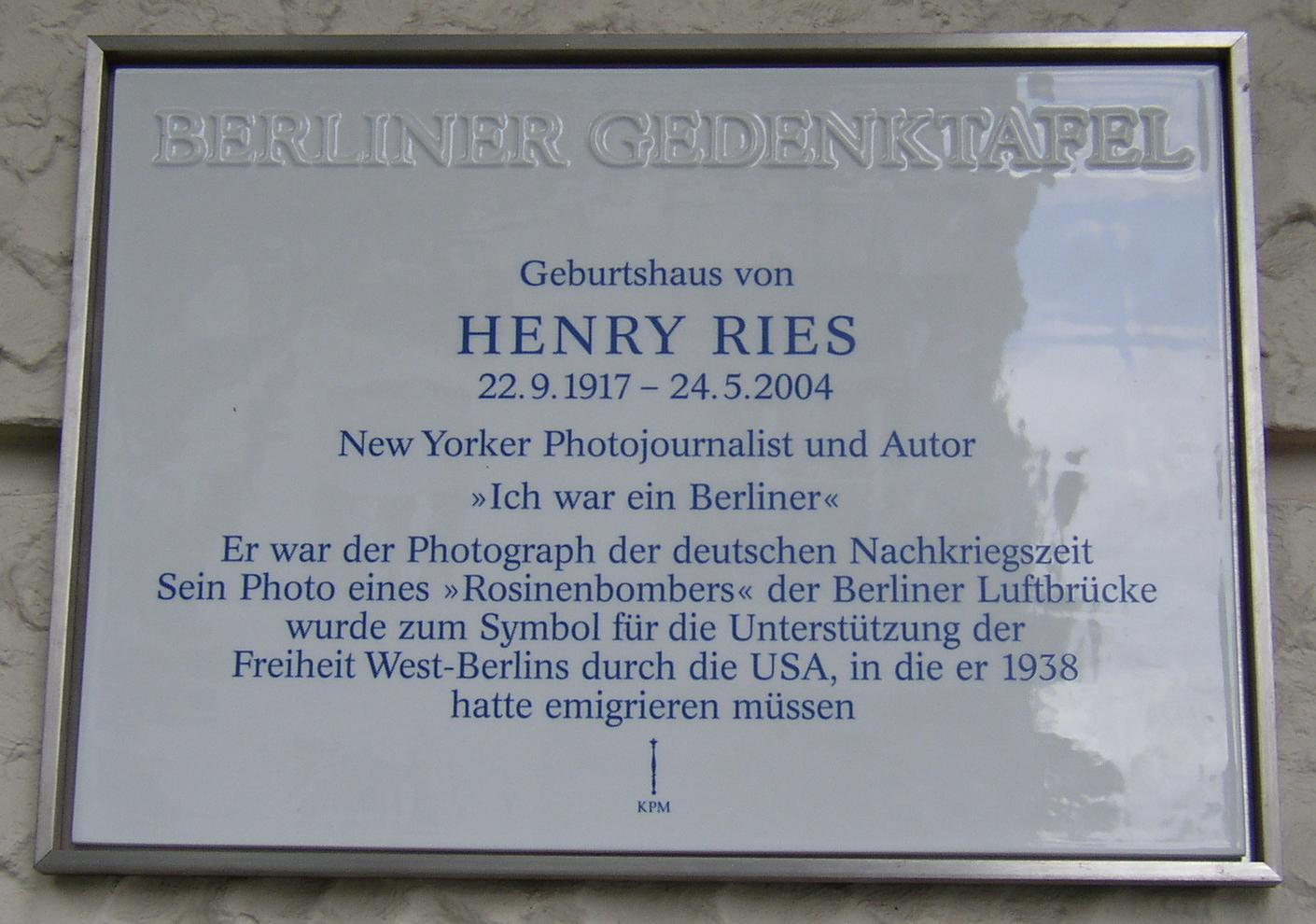 Berlin memorial plaque for Henry Ries in Berlin-Wilmersdorf, Germany